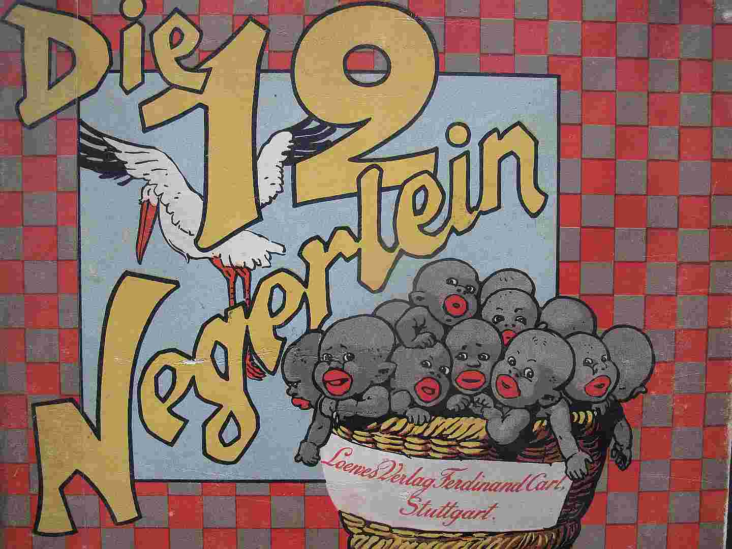 Cover of book "Die 12 Negerlein".